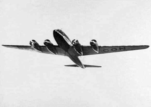 The first Focke-Wulf Fw 200 "Brandenburg" (Wk. Nr. 2000, D-ACON) in flight. D-ACON first flew on 27 July 1937. It made two long distance record flights in 1938 but it was lost after a fuel leak forced it to ditch in Manila Bay, Philippines, on 6 December 1938.